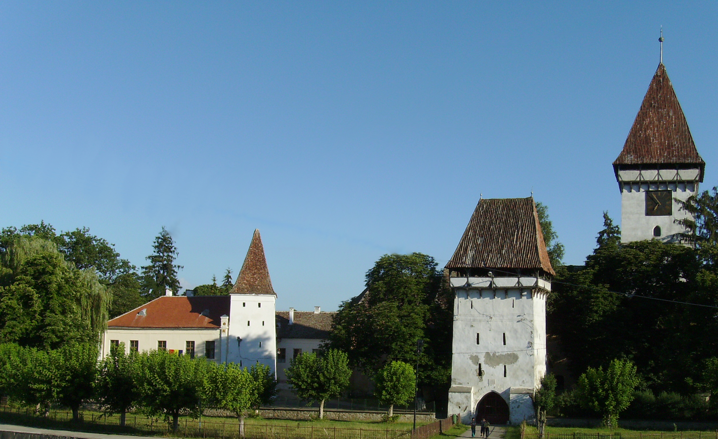 Fortified church of Agnita, Transylvania, Romania South-East Transylvania boasts Europe's densest system of well preserved medieval fortifications. Virtually every village of this region has a fortified church in good shape, let alone ruined strongholds, forts and fortified castles.